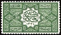 The first postage stamp of Hejaz, Sherifate of Mecca, 1/4 pi, 1916, Scott #L1. Design adapted from Carved Door Panels of Mosque El Salih Talay, Cairo